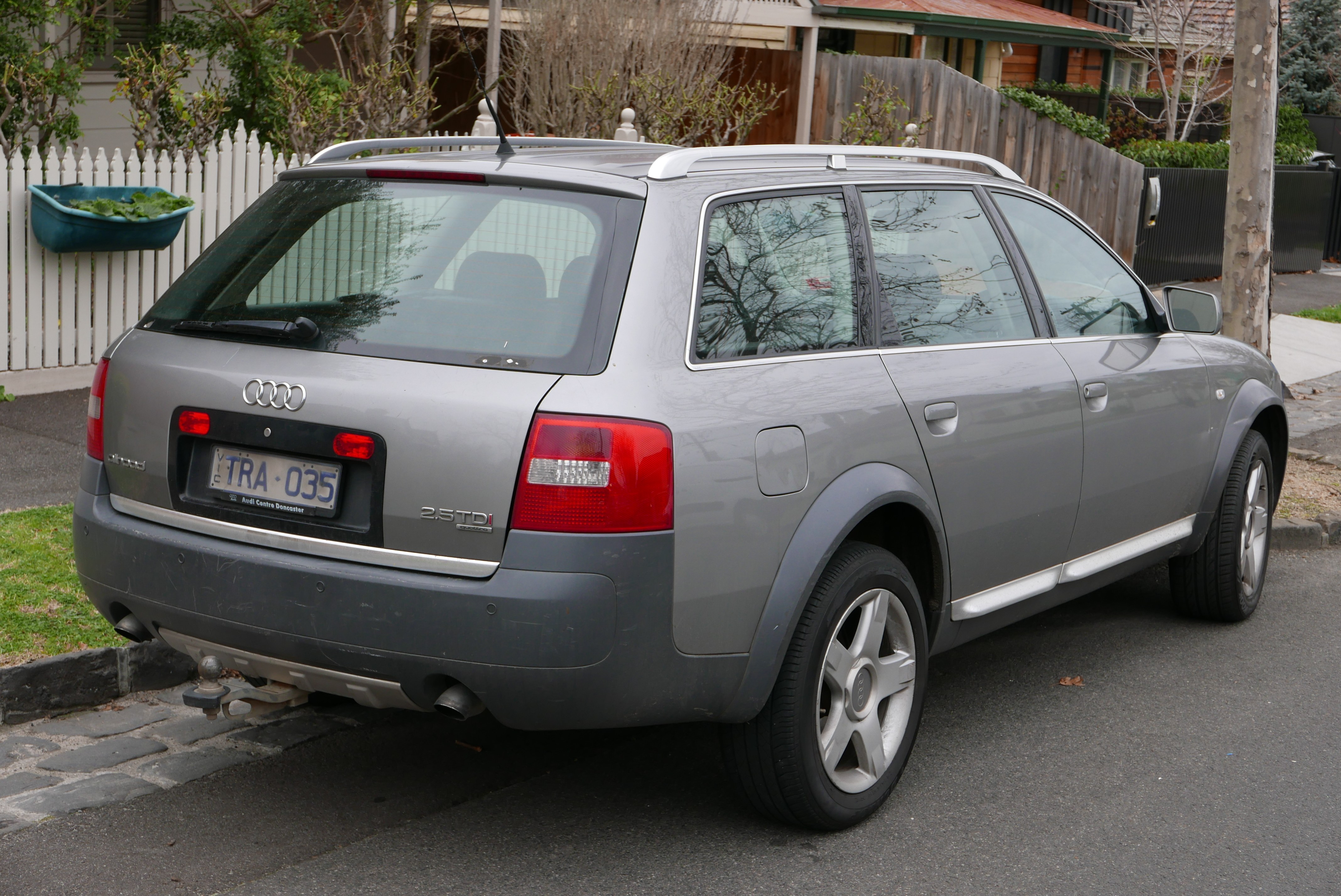 2005 Audi allroad (4B MY04) 2.5 TDI quattro Avant station wagon. Photographed in Kew, Victoria, Australia. Vehicle registration enquiry resultsJurisdictionVictoriaRegistrationTRA035Chassis codeWAUZZZ4B15N025803Engine codeBAU047163Compliance date2005-05Year of manufacture2005